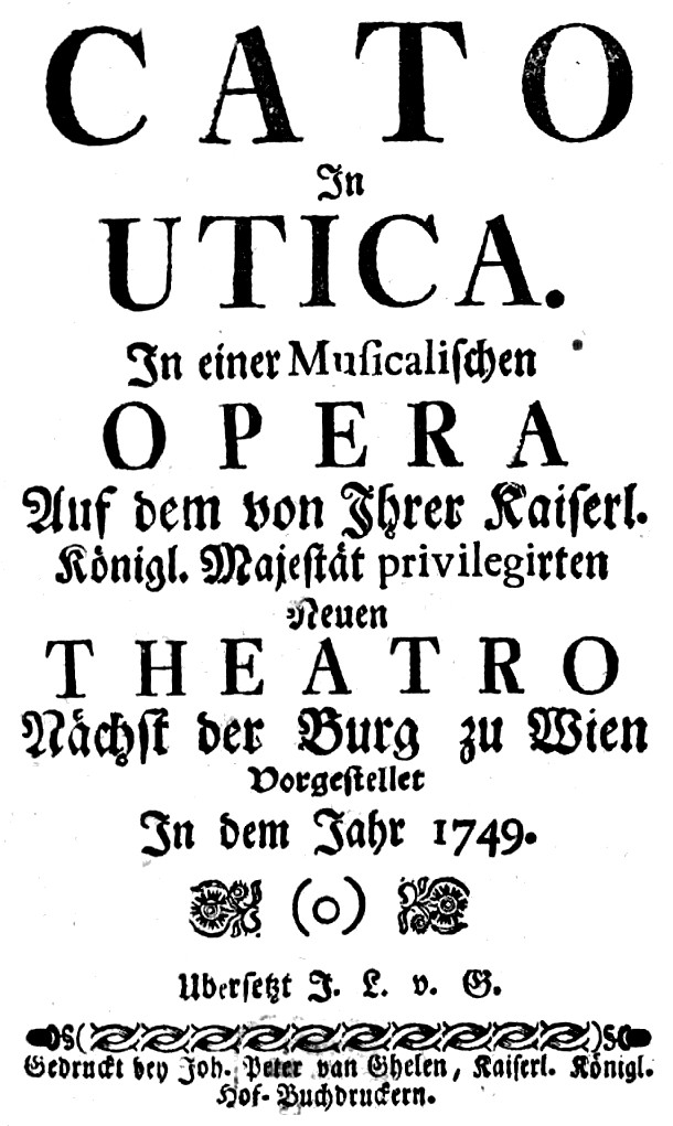 Niccolò Jommelli, Johann Leopold von Ghelen - Catone in Utica - german titlepage of the libretto - Vienna 1749